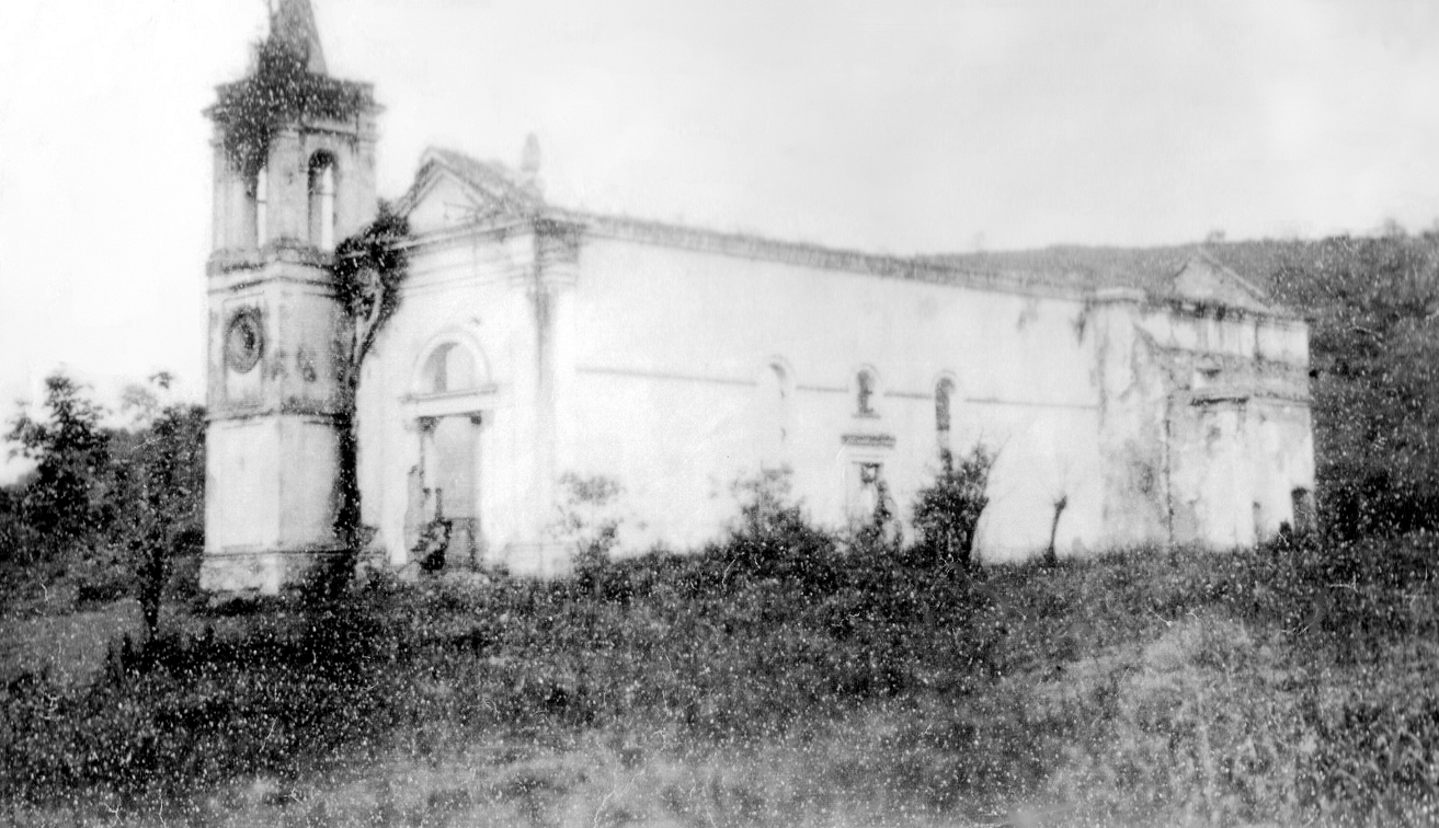 Ruíns of the Church of Nossa Senhora da Piedade do Iguaçu, today Nova Iguaçu, Rio de Janeiro, Brazil